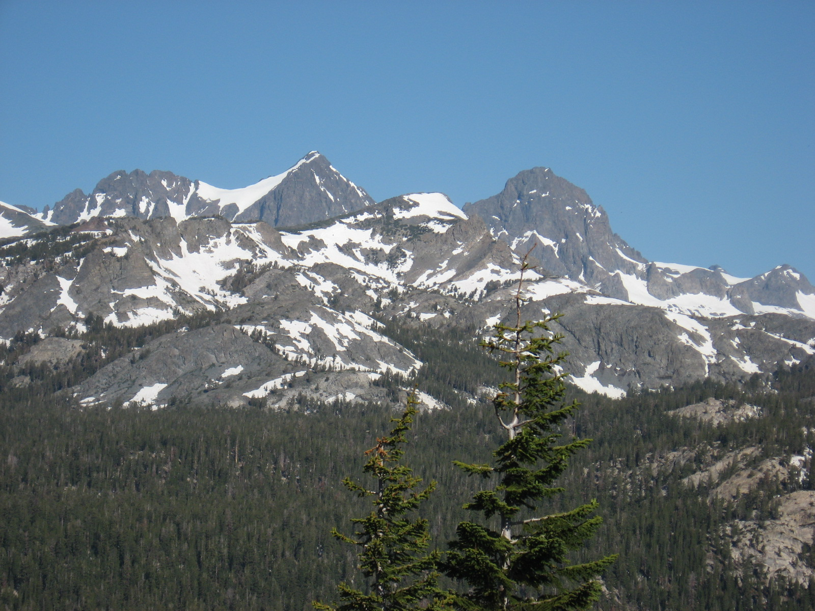 The Ritter Range within California's Sierra Nevada mountains. Author: Chuhern Hwang, own photo